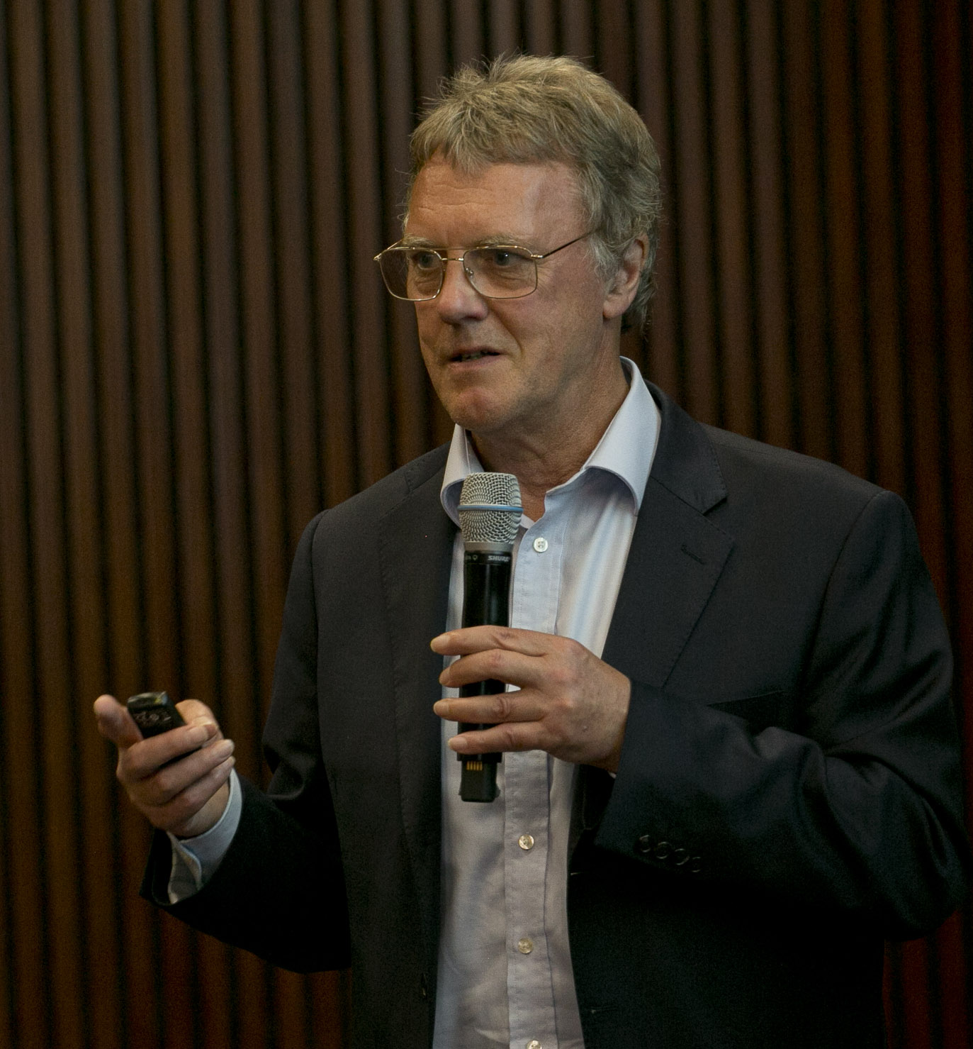 Peter Ratcliffe during a talk at the Centro Cultural de la Ciencia in Buenos Aires, Argentina.